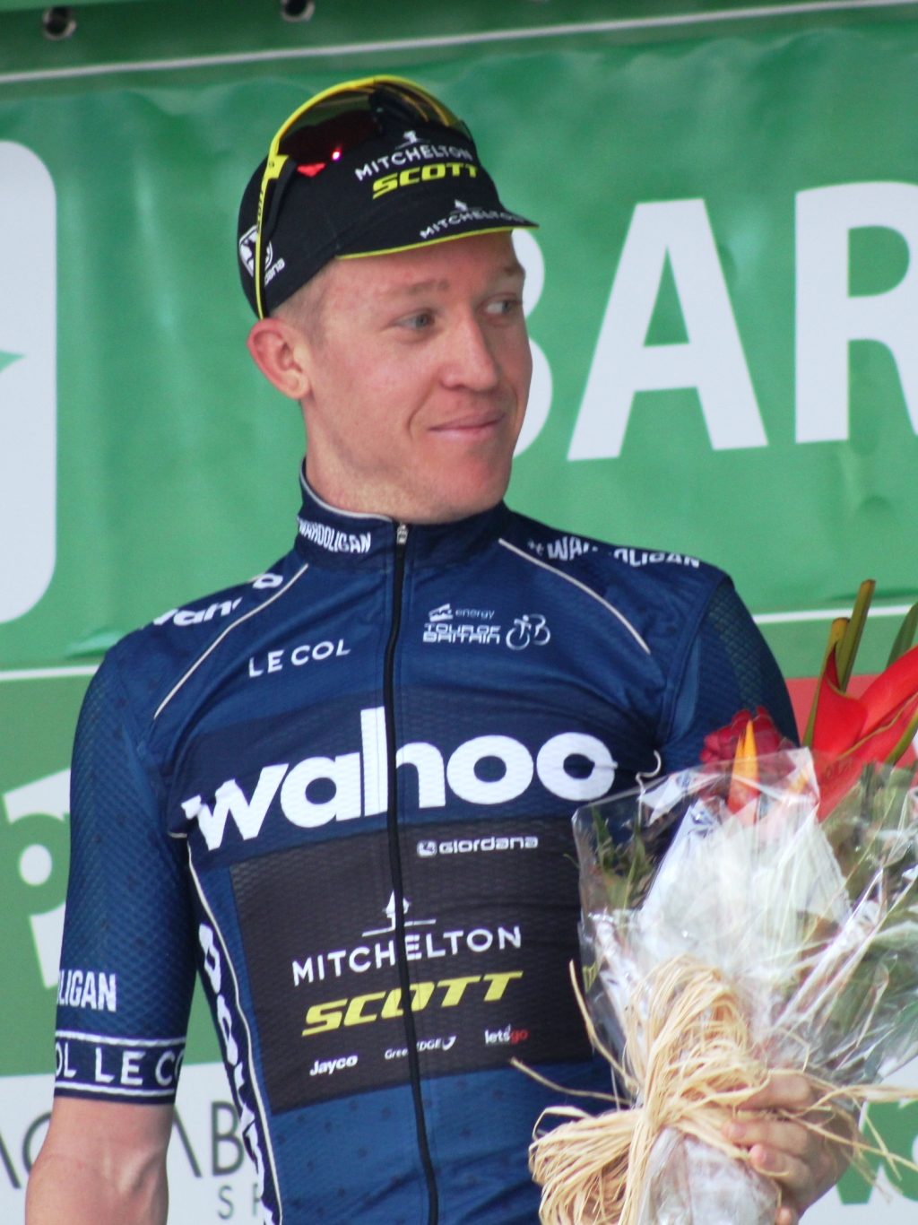 Being in a breakaway group for most of stage two of the 2018 Tour of Britain allowed Mitchelton-Scott's Cameron Meyer to mop up enough points to put him in the Wahoo Points jersey.